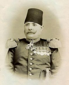 Nazim Pasha, Ottoman commander. (before 1917)